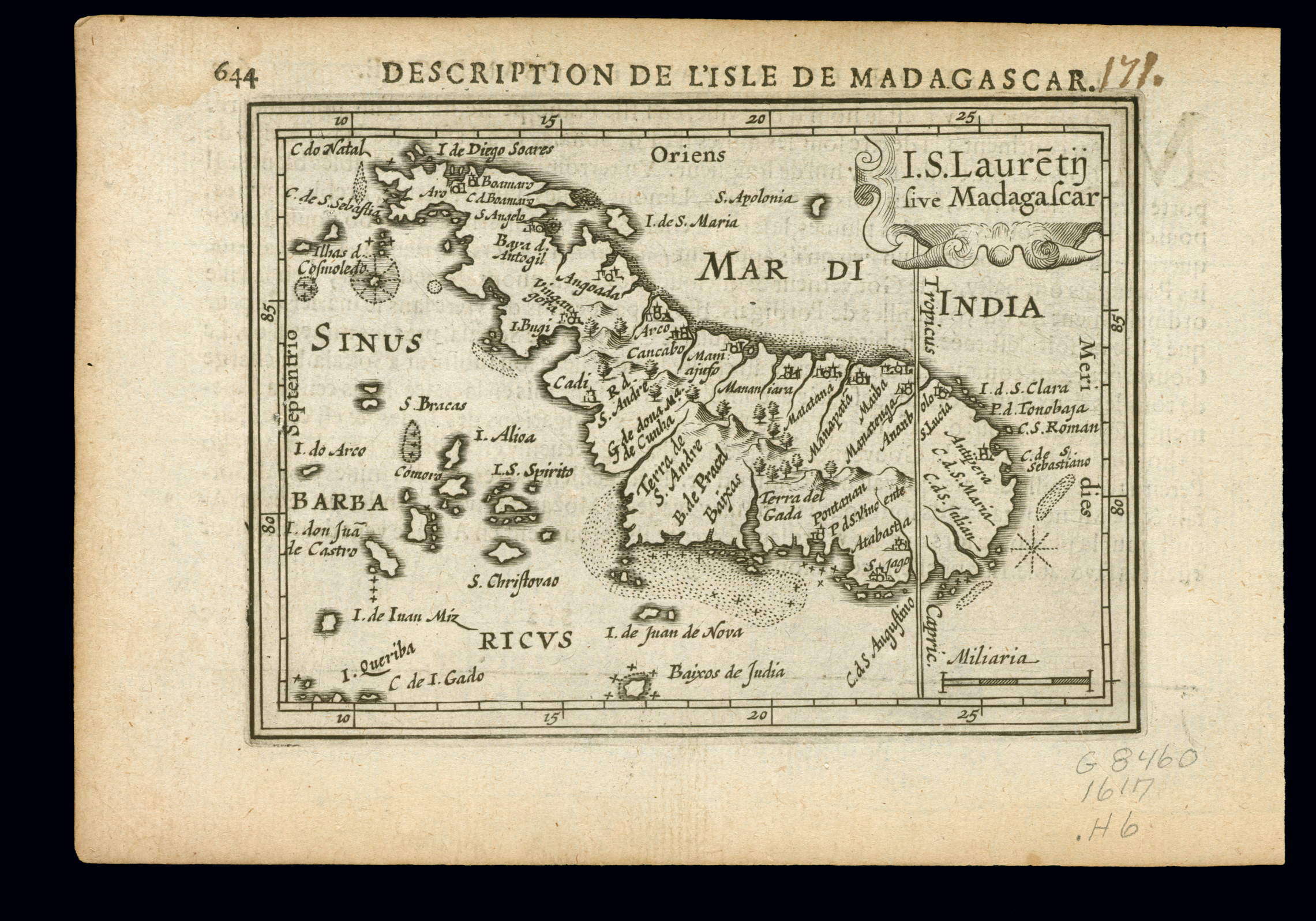 I.S. Lauretij sive Madagascar. Description de l'isle de Madagascar Description du royaume Mosambique Relief shown pictorially. Map oriented with north to the left. Detached from a French edition of Tabularum geographicarum contractarum ..., by Petrus Bertius, p. 644 (map) and 643 (text). (Description from: North West University Library)